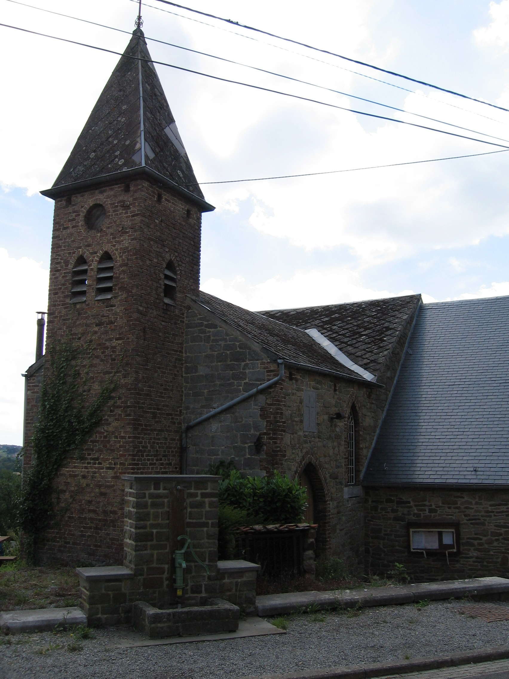 The church of Besinne (near Arbre) in the province of Namur (Belgium)